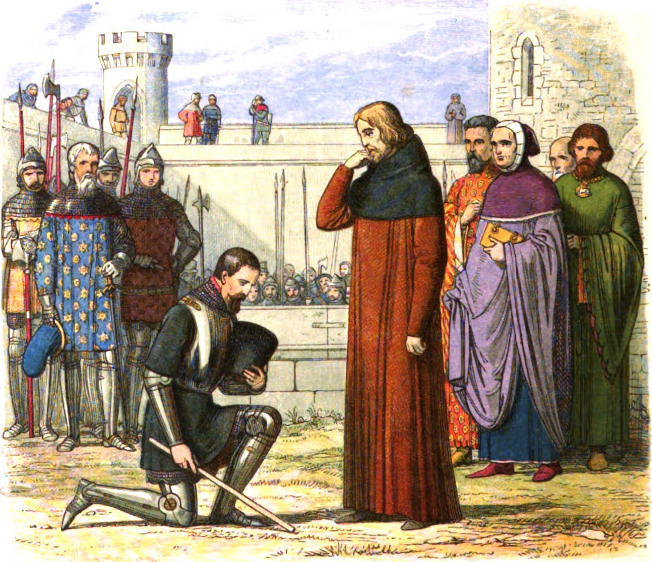 Henry kneels before Richard II.